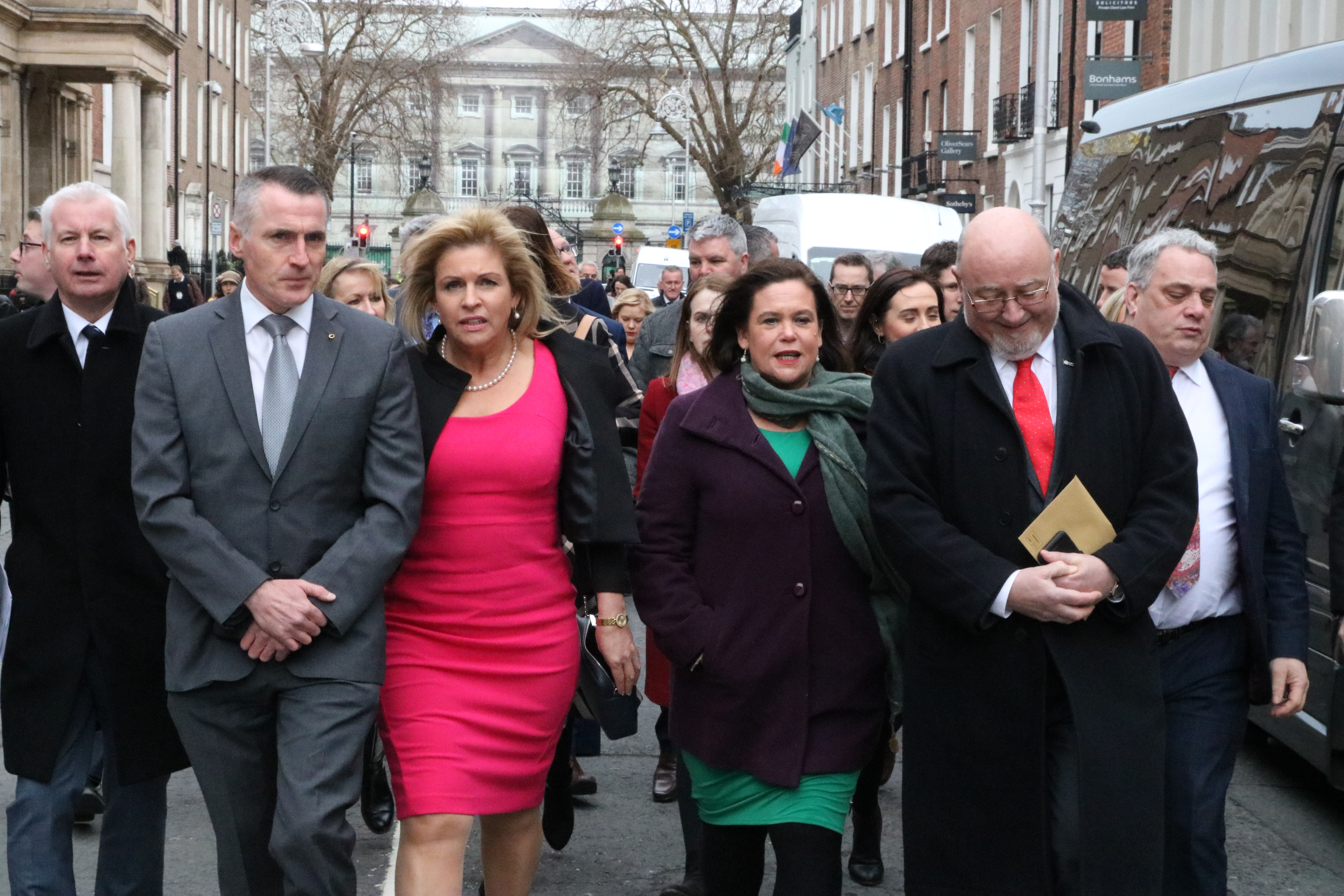 Sinn Féin MPs, MLAs & TDs en route to the Dáil100 event